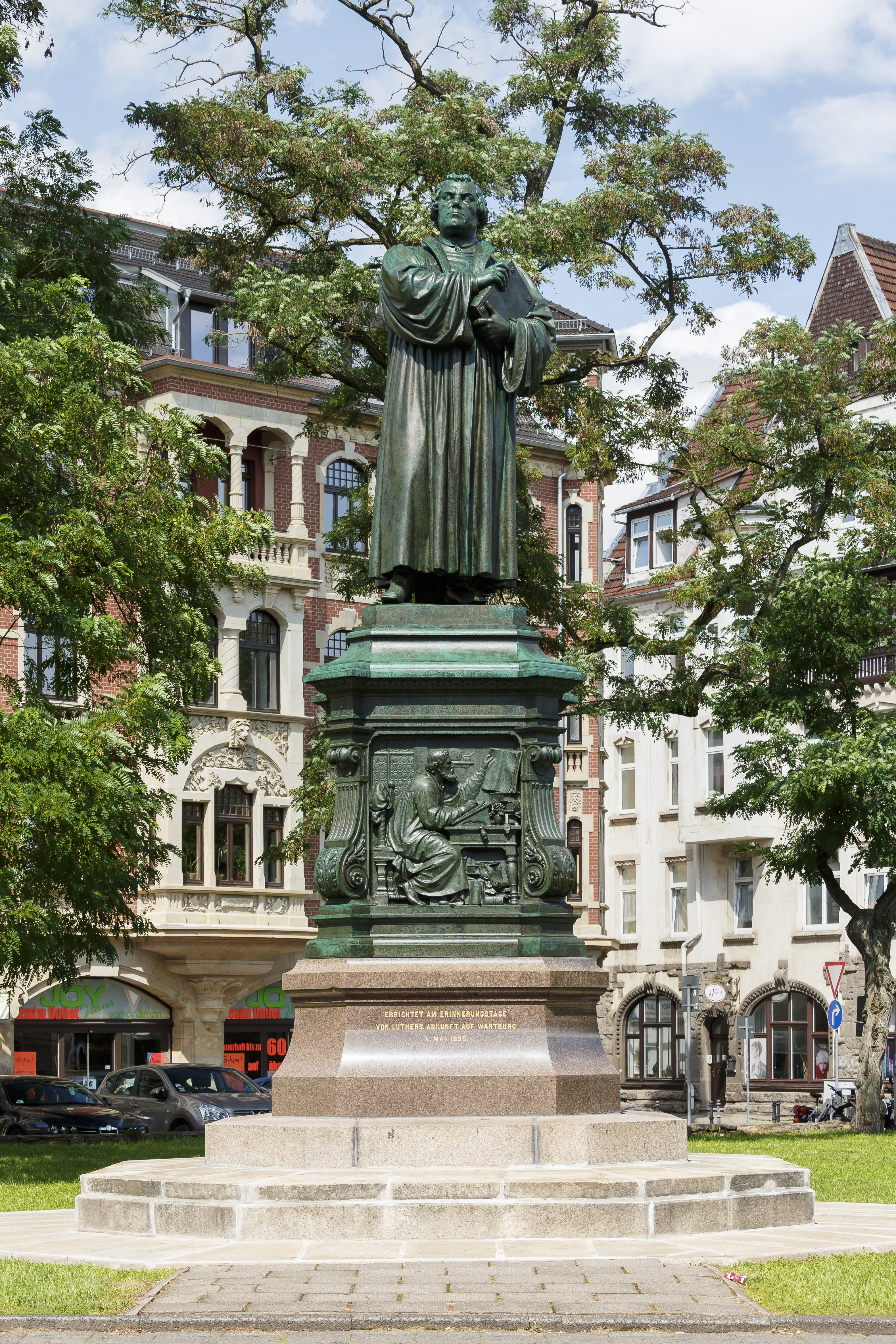 Eisenach, Germany: Luther memorial